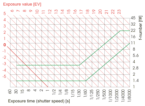 Exposure program chart (graph, diagram). Red lines are exposure values, green lines sample program lines.